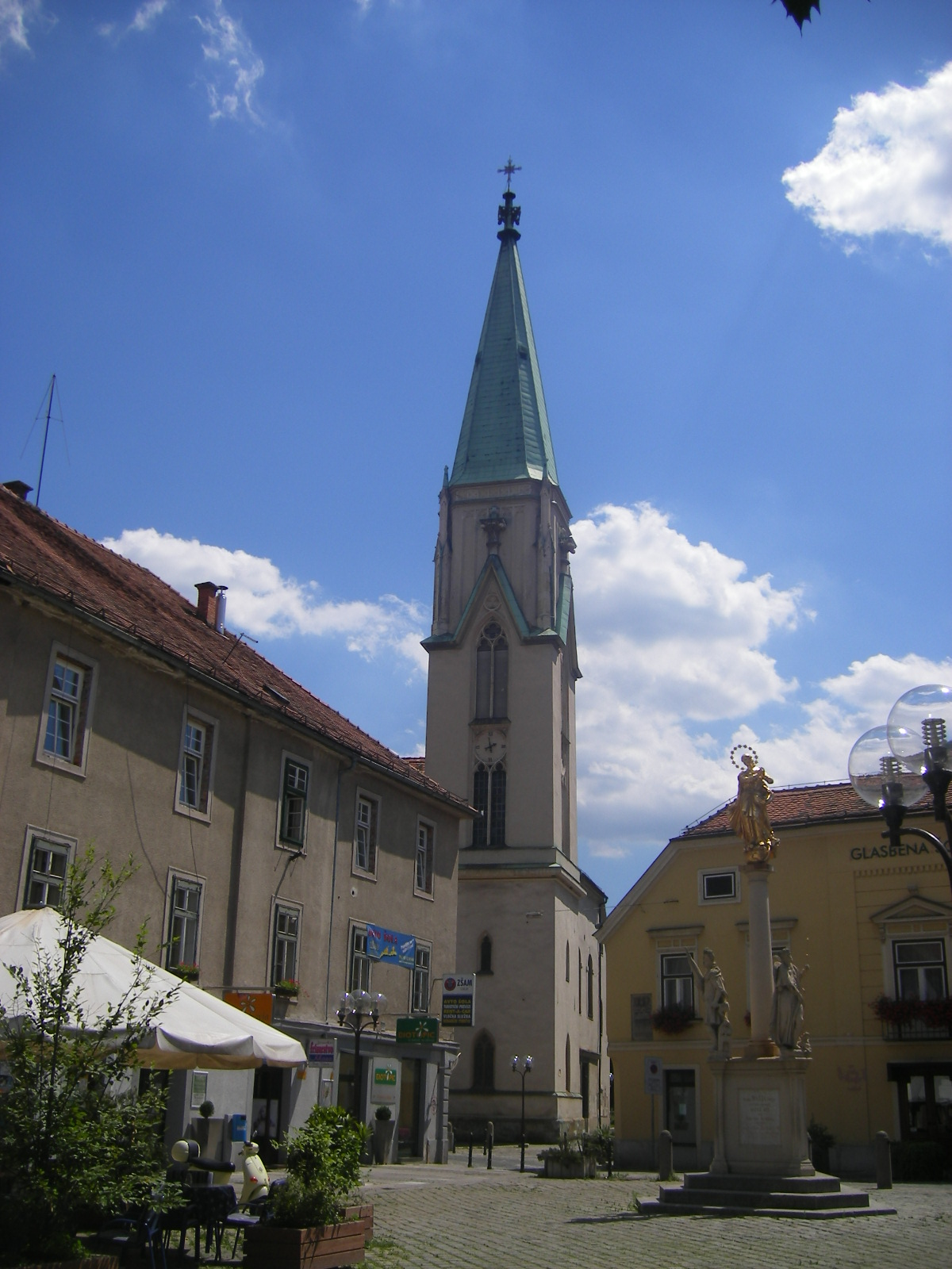 Celje - The Main Square ("Glavni trg") and the Saint Daniel's Cathedral ("Stolnica svetega Danijela").